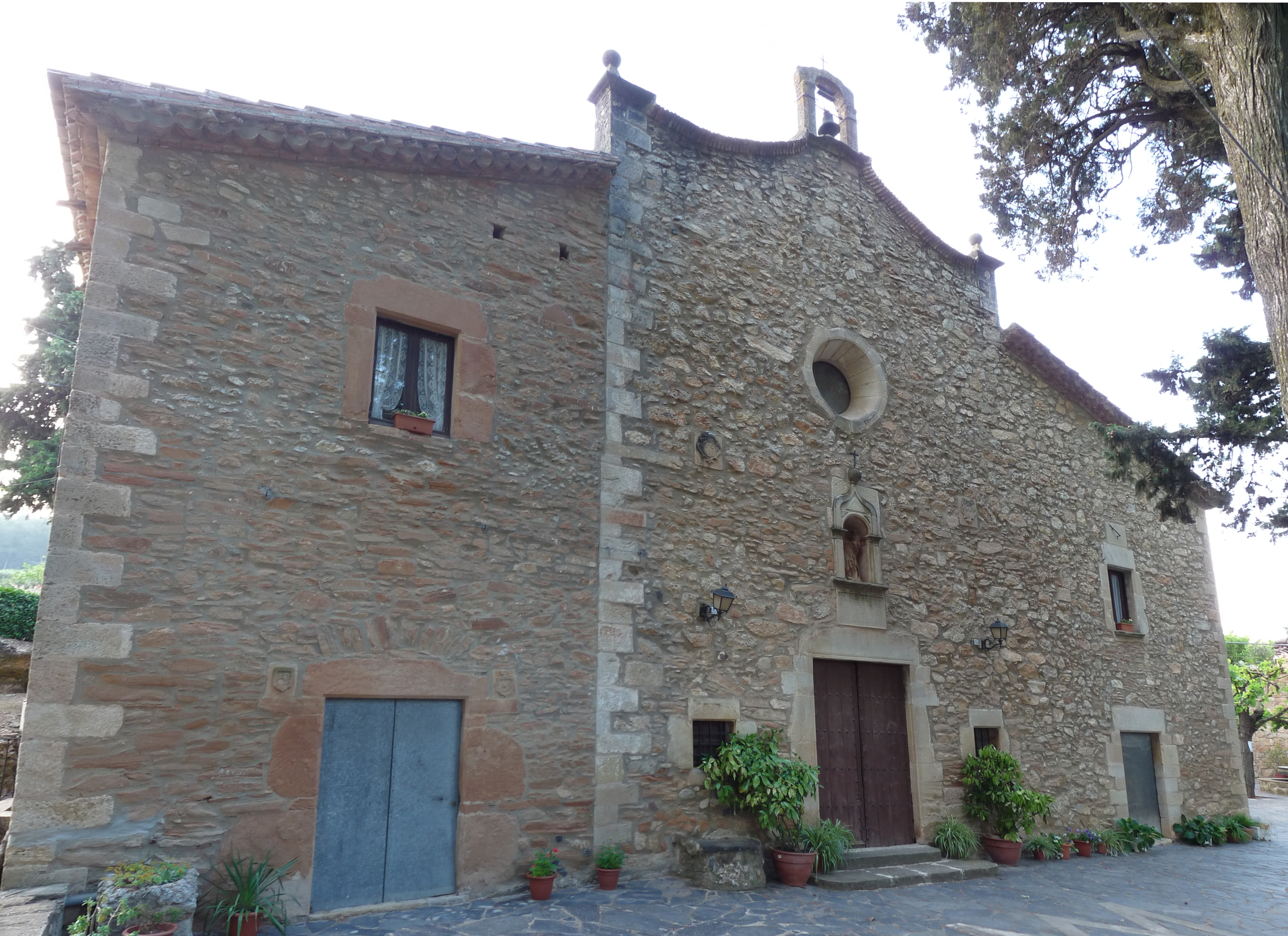 Hermitage of Mare de Déu dels Torrents, Vimbodí